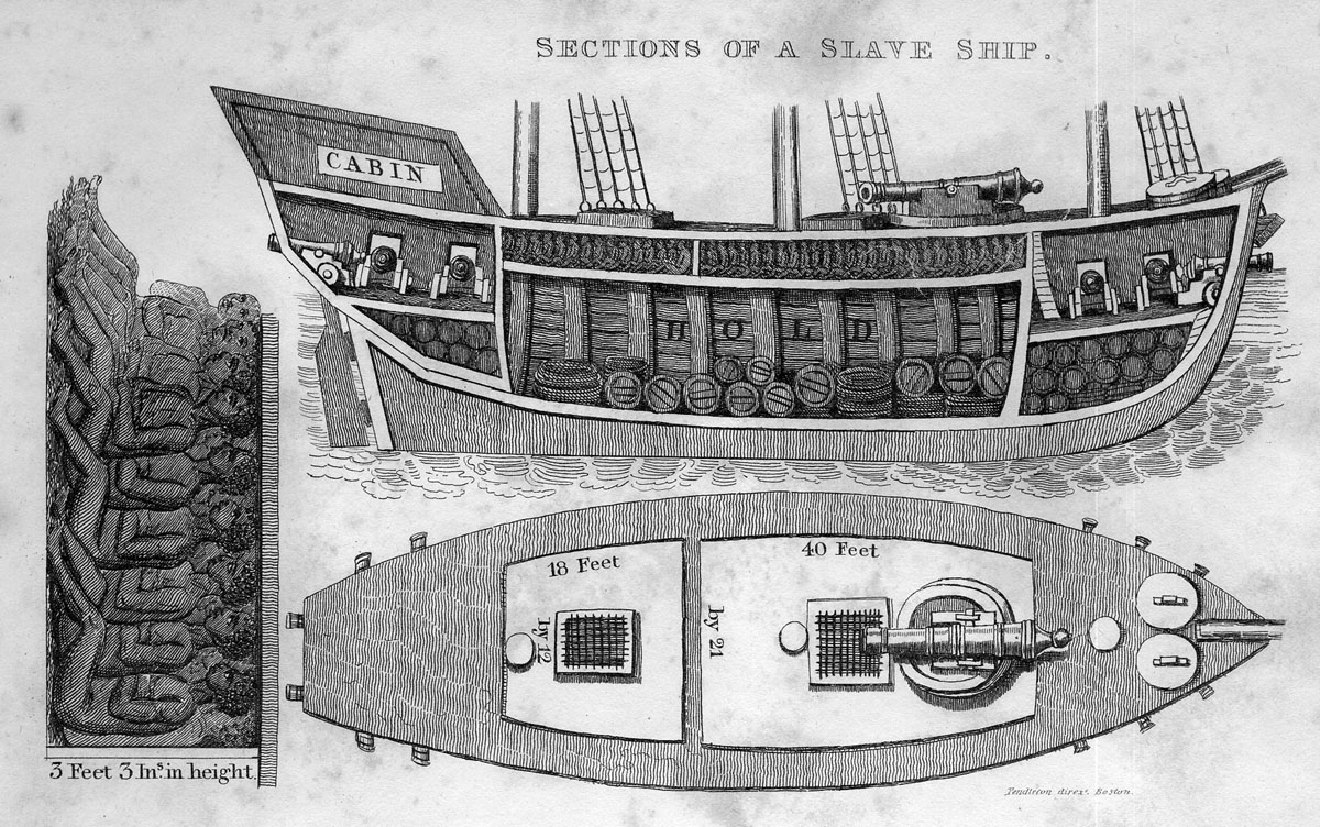 Drawing of a cross-section of a slaver ship in Brazil, from book by Robert Walsh, published 1830.